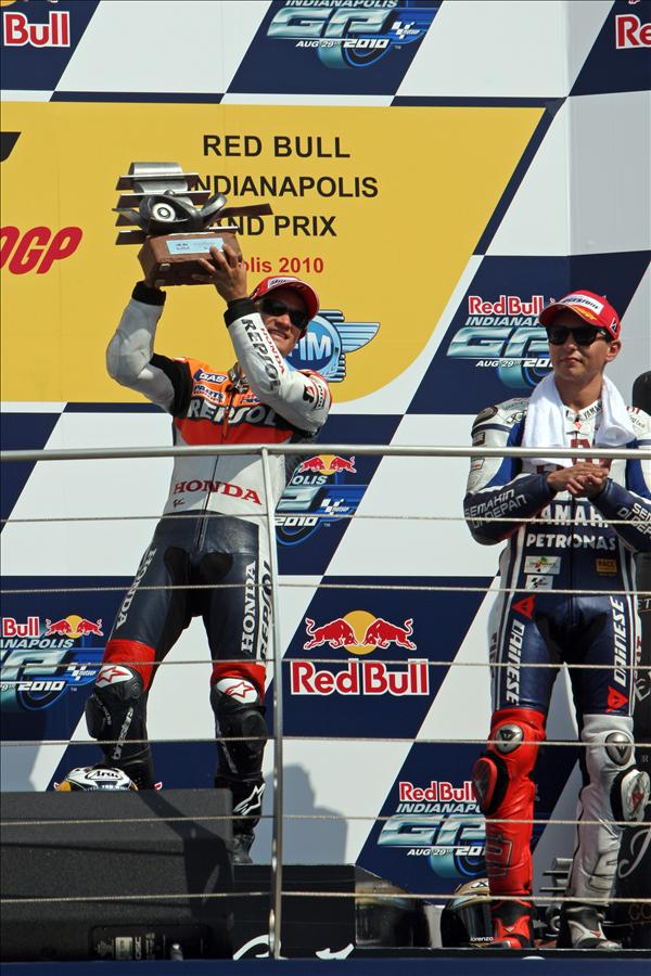 Dani Pedrosa, lifting his first place trophy on the podium after winning the 2010 Indianapolis Grand Prix, with third place Jorge Lorenzo next to him.